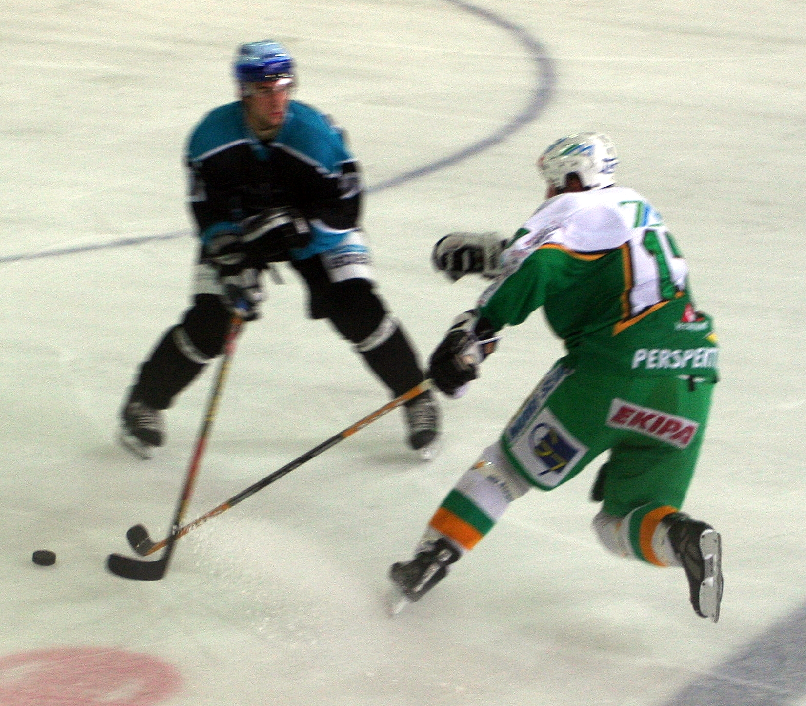 HDD Olimpija - EHC Linz, friendly match in 2007